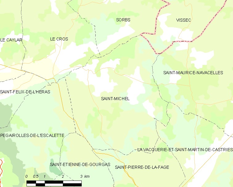 Map commune FR insee code 34278.png - Saint-Michel (Hérault)